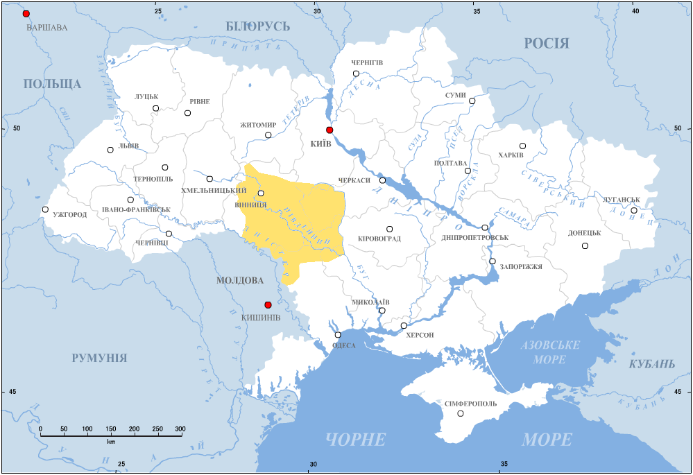 Bratslavschyna, historical region of Ukraine under Poland (Rzeczpospolita). It was subject to numerous harsh raids by tatars from Wild Fields. Based on File:Ukraine.png and File:ProwincjaMalopolska.png.